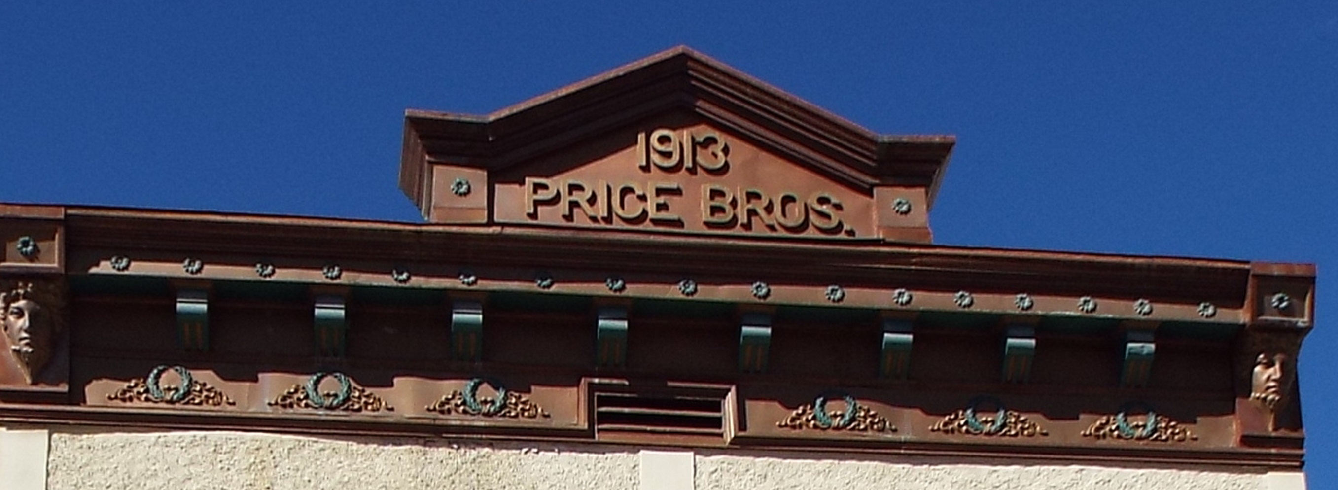 Miami, Az.-Price Brothers Building-508 Sullivan Street-1913